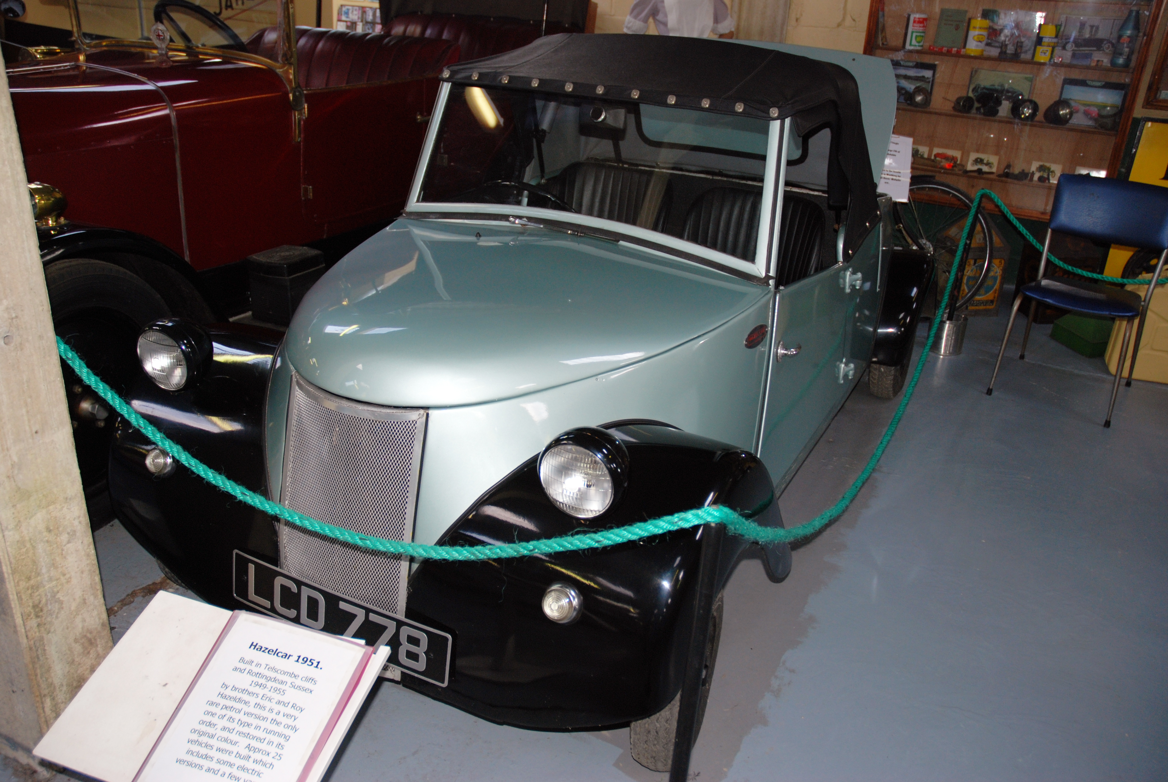 Bentley Motor Museum Oct 2007